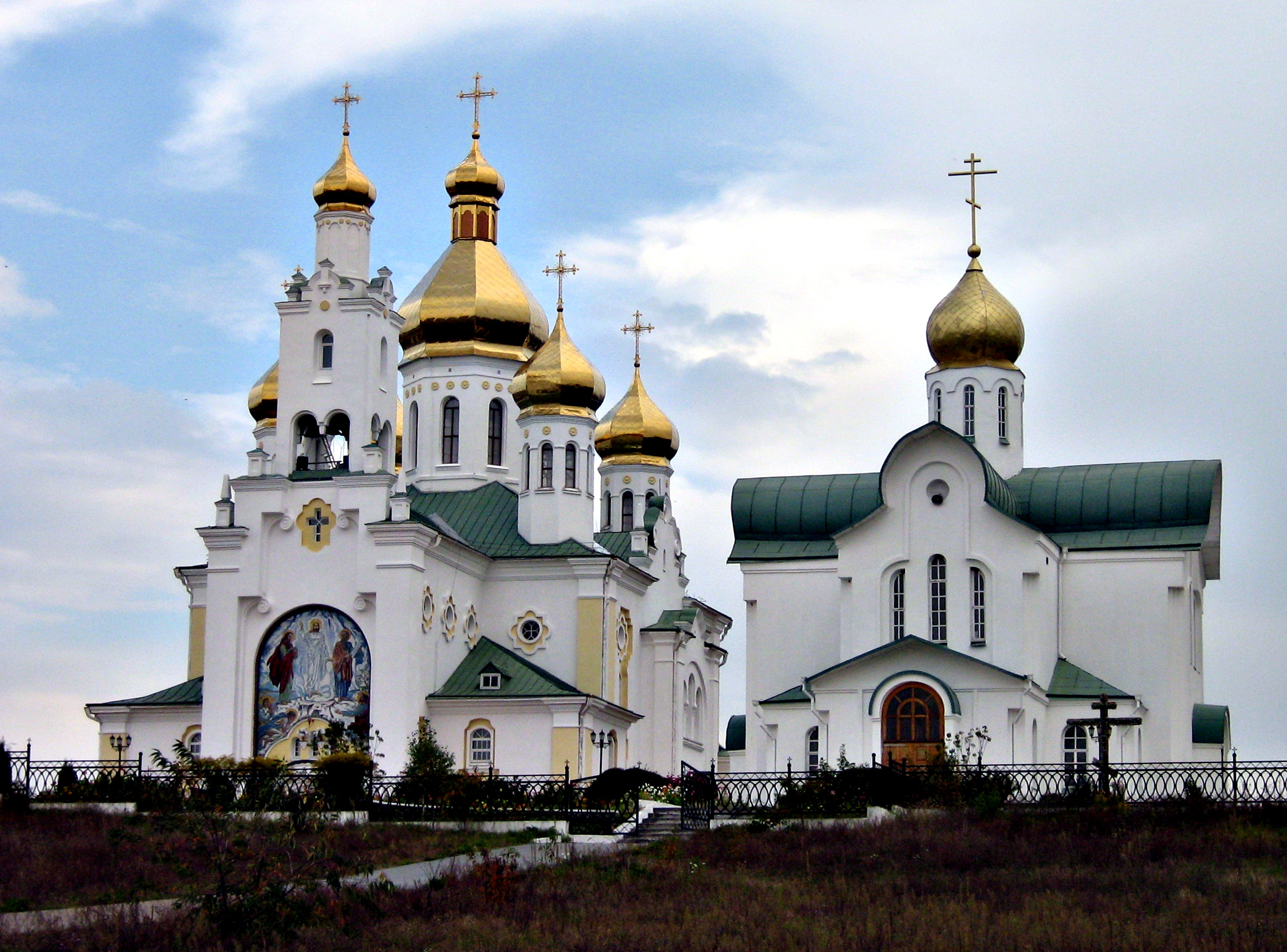 Kuznetsovsk is the town near Rivne NPP.